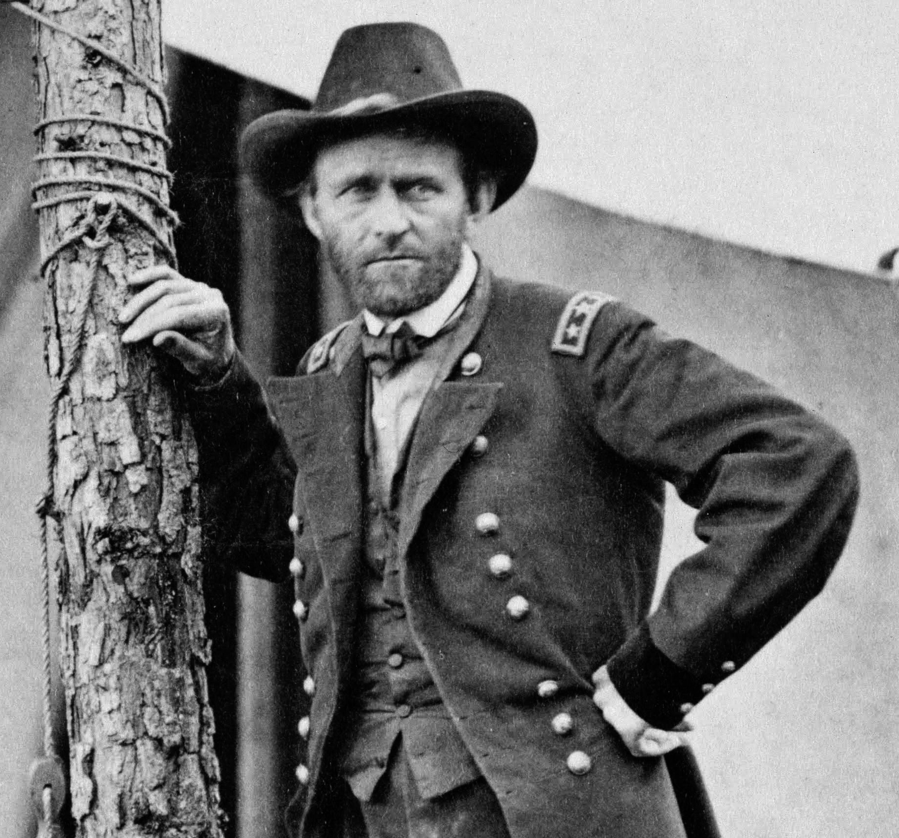 Crop of Fowx's General Ulysses S Grant at Cold Harbor